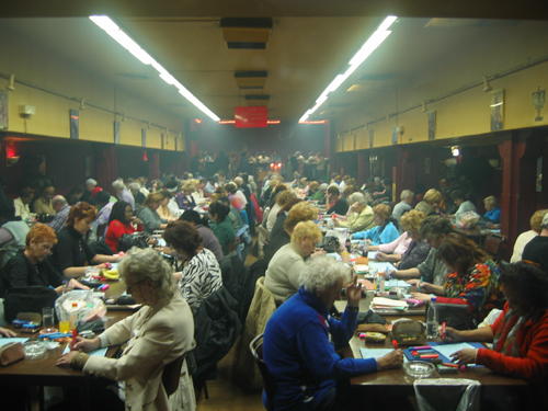 Bingo players.